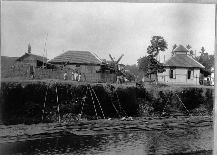 Bambu deliverance at kampung Kwitang in Batavia.